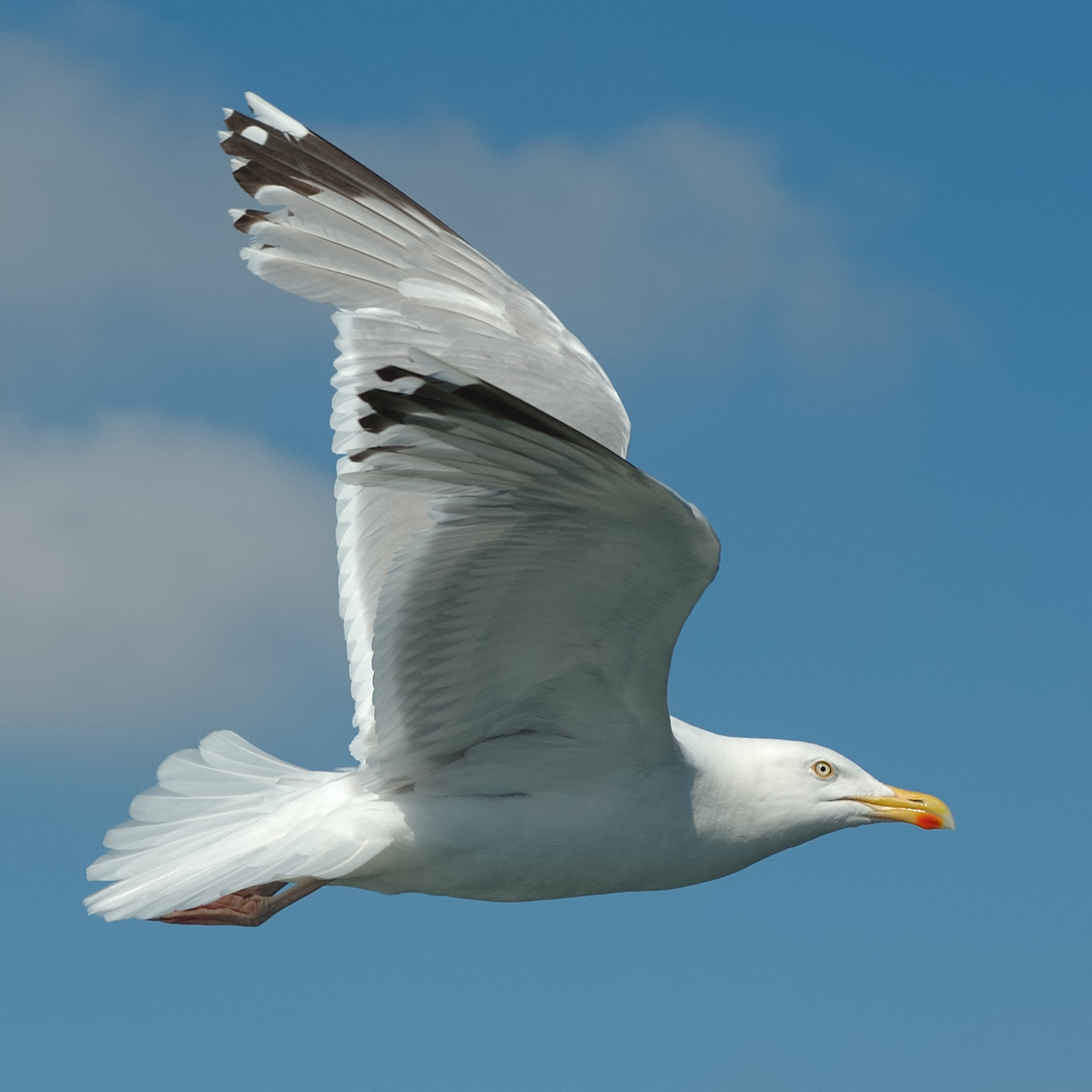 Herring gull (Larus argentatus) in flight. (Geocoordinates estimated.)